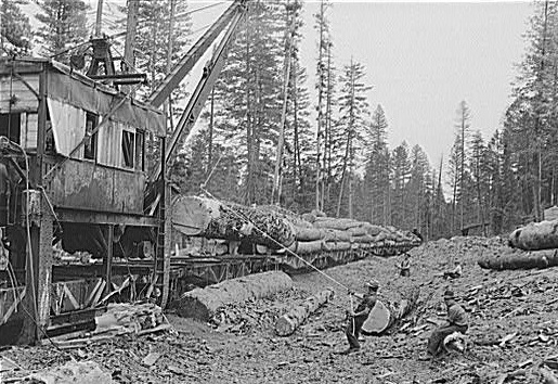 Grant County, Oregon. Malheur National Forest. Loading logs onto flatcar